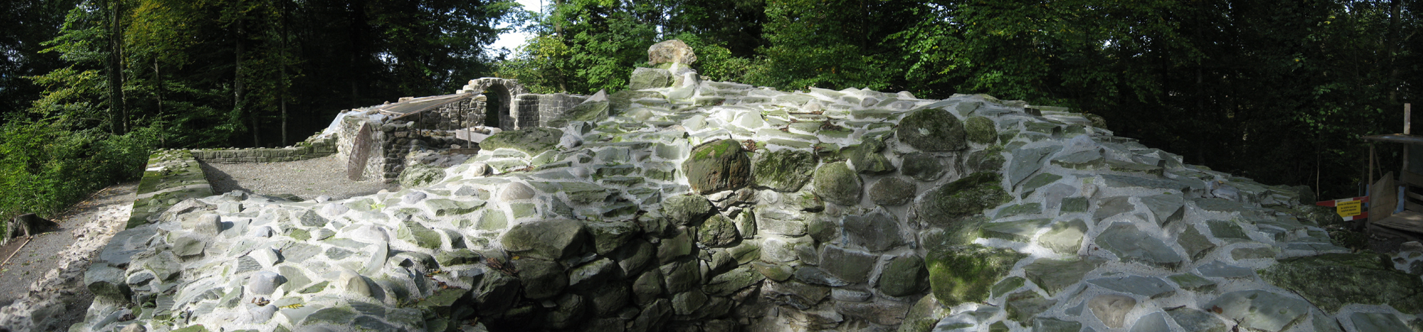 Burg Hünenberg, Zug, Schweiz